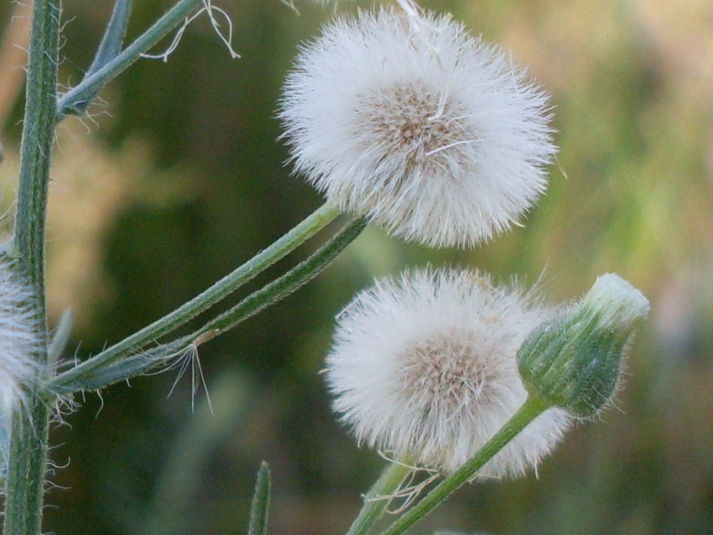 Fleabane, Conyza bonariensis. Pilliga Forest, NSW Australia, January 2009.